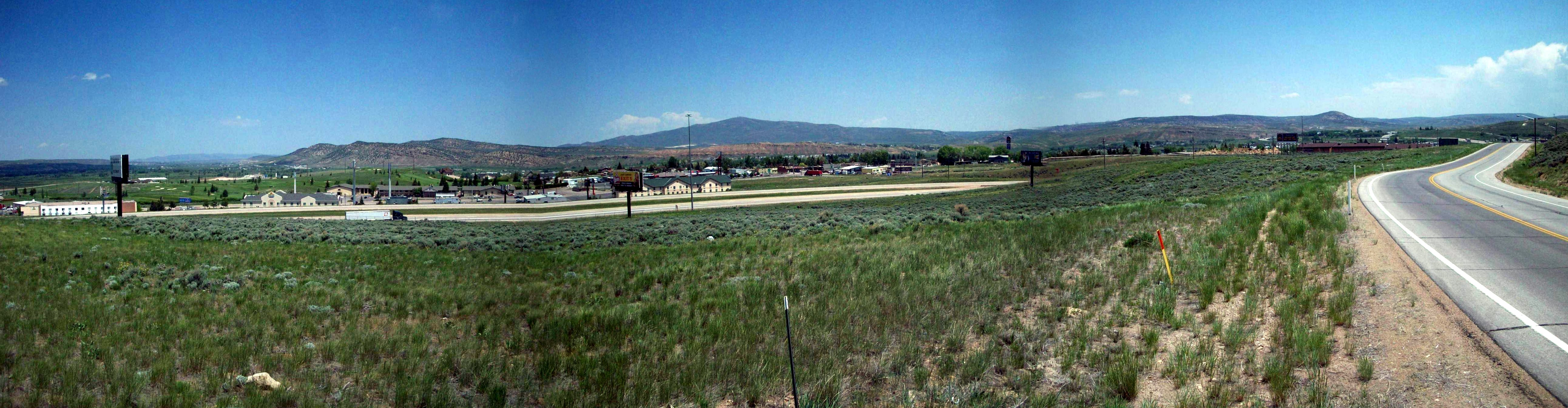 A panorama looking north into Evanston. Downtown is in the center of the picture, above Interstate 80. This picture was taken originally on 35mm film and scanned. The lines in the image (from stitching the pictures together) have been blurred out.